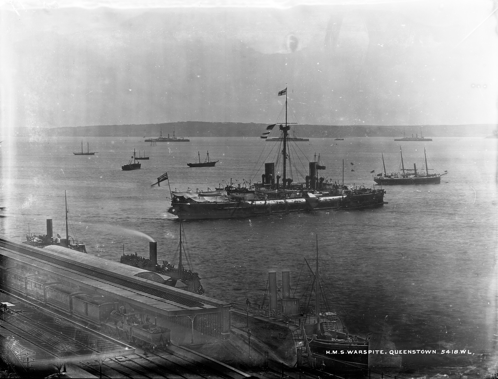 Since we visited Kingstown yesterday, thought we might swing by Queenstown in Co. Cork today, now renamed Cobh. This photo lacks the usual impeccable clarity of our Lawrence Collection photos, but thought you might be interested in it anyway. For train buffs, I think the engine has no. 89 on it... Date: 1893-1896 NLI Ref.: L_ROY_05418